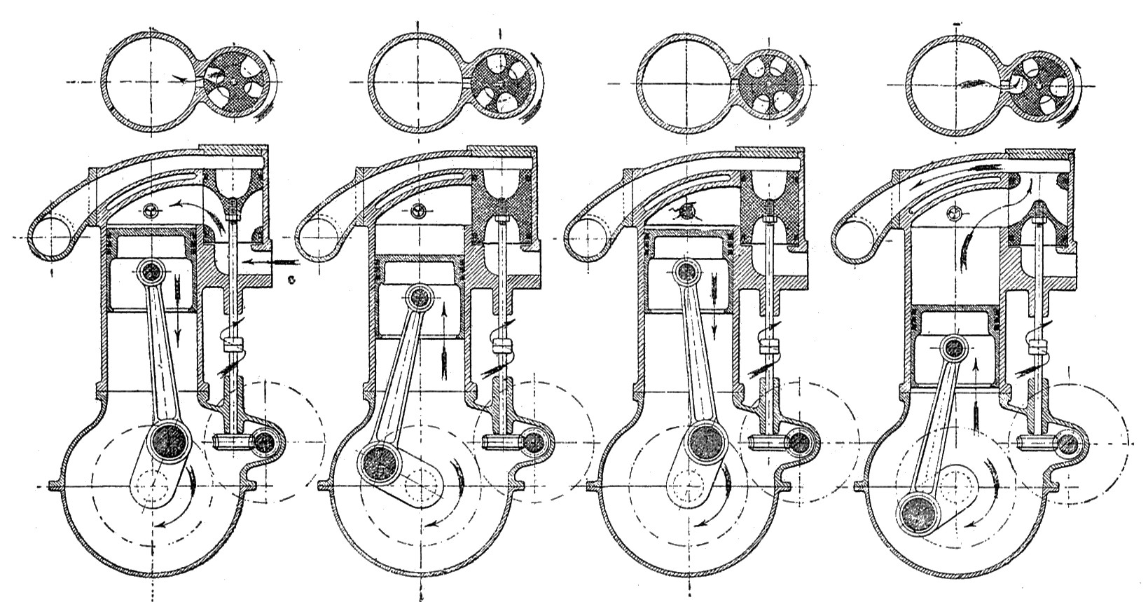 Itala Itala rotary valve Scans from 'The Book of the Motor Car', Rankin Kennedy C.E., 1912 See other images from this source in Scans from 'The Book of the Motor Car'